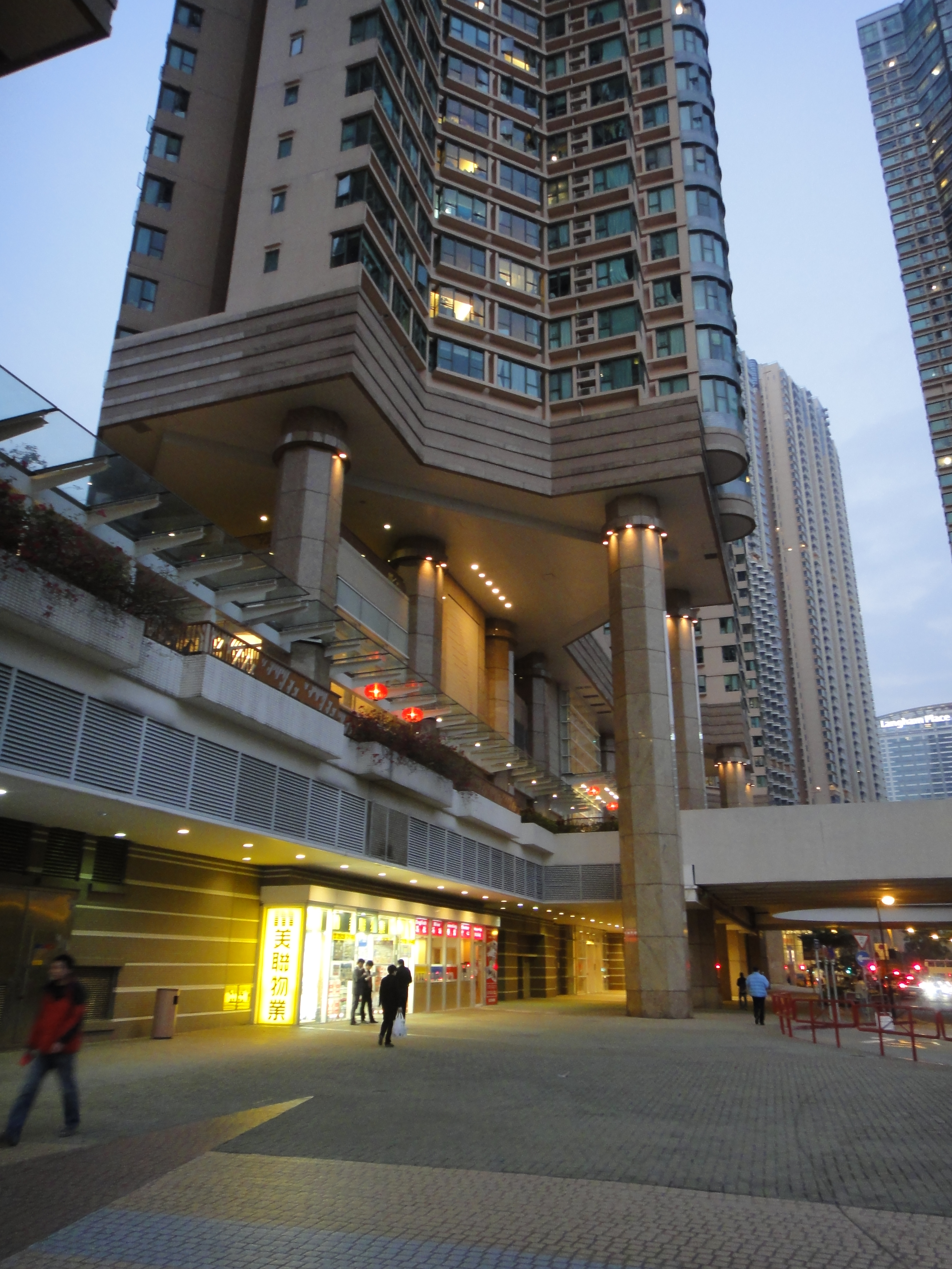 Tai Kok Tsui New Houses